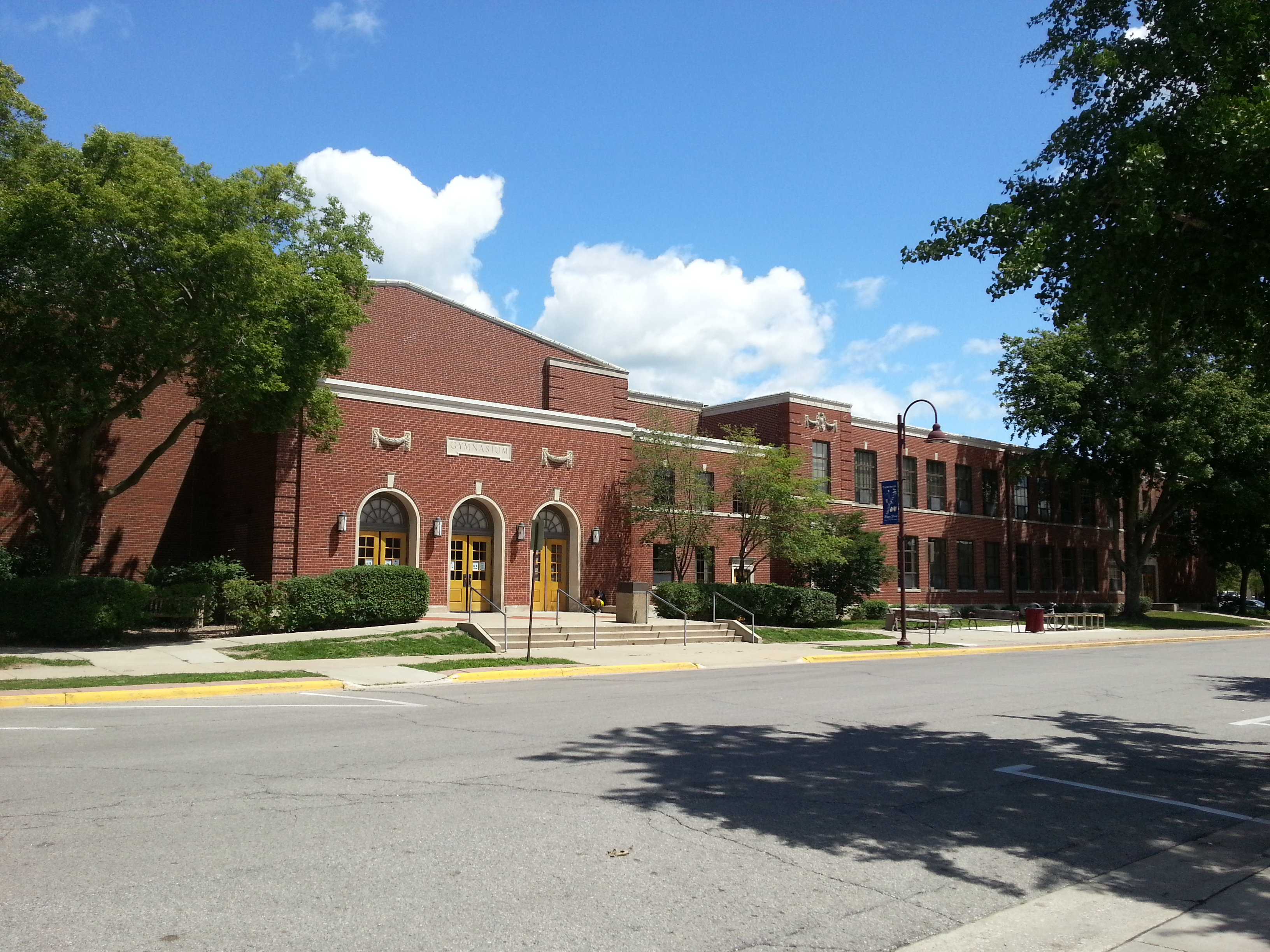 Ames High School, 515 Clark Ave. Ames